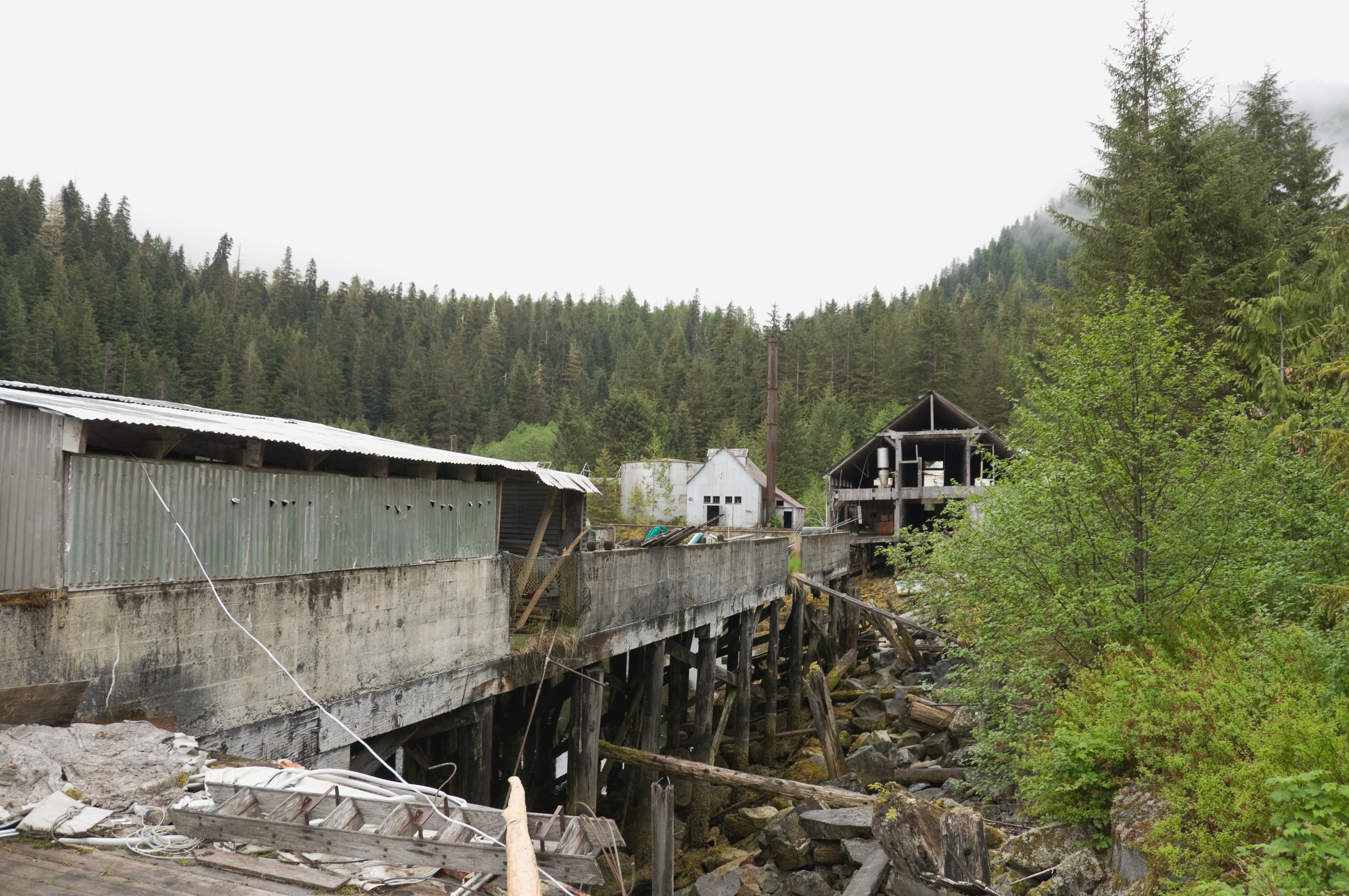 Once upon a time, Butedale was the site of a large and bustling salmon cannery. It even had its own fishing fleet. In its hayday, the facility at Butedale employed as many as 400 people. The salmon fishery declined, and the facility at Butedale was closed in the 1950s. It's fun to tie up at Butedale, visit with Lou, the caretaker, meet his faithful dog and cat, and stroll carefully around the ruins. Princess Royal Island, British Columbia.